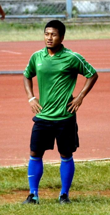 Jeje is in red hot form!